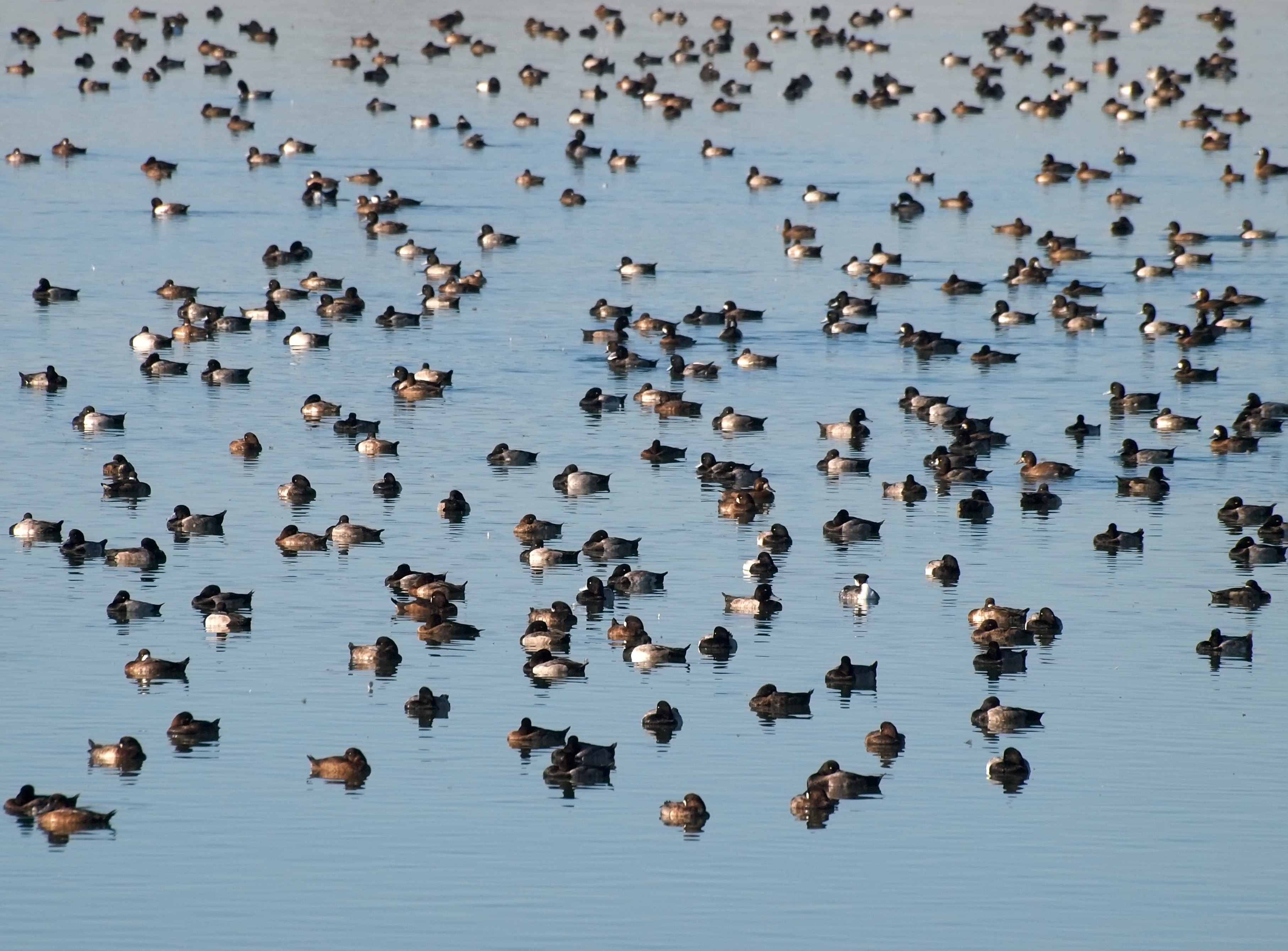 One part of a huge raft of just-arrived Scaup at Arrowhead Marsh